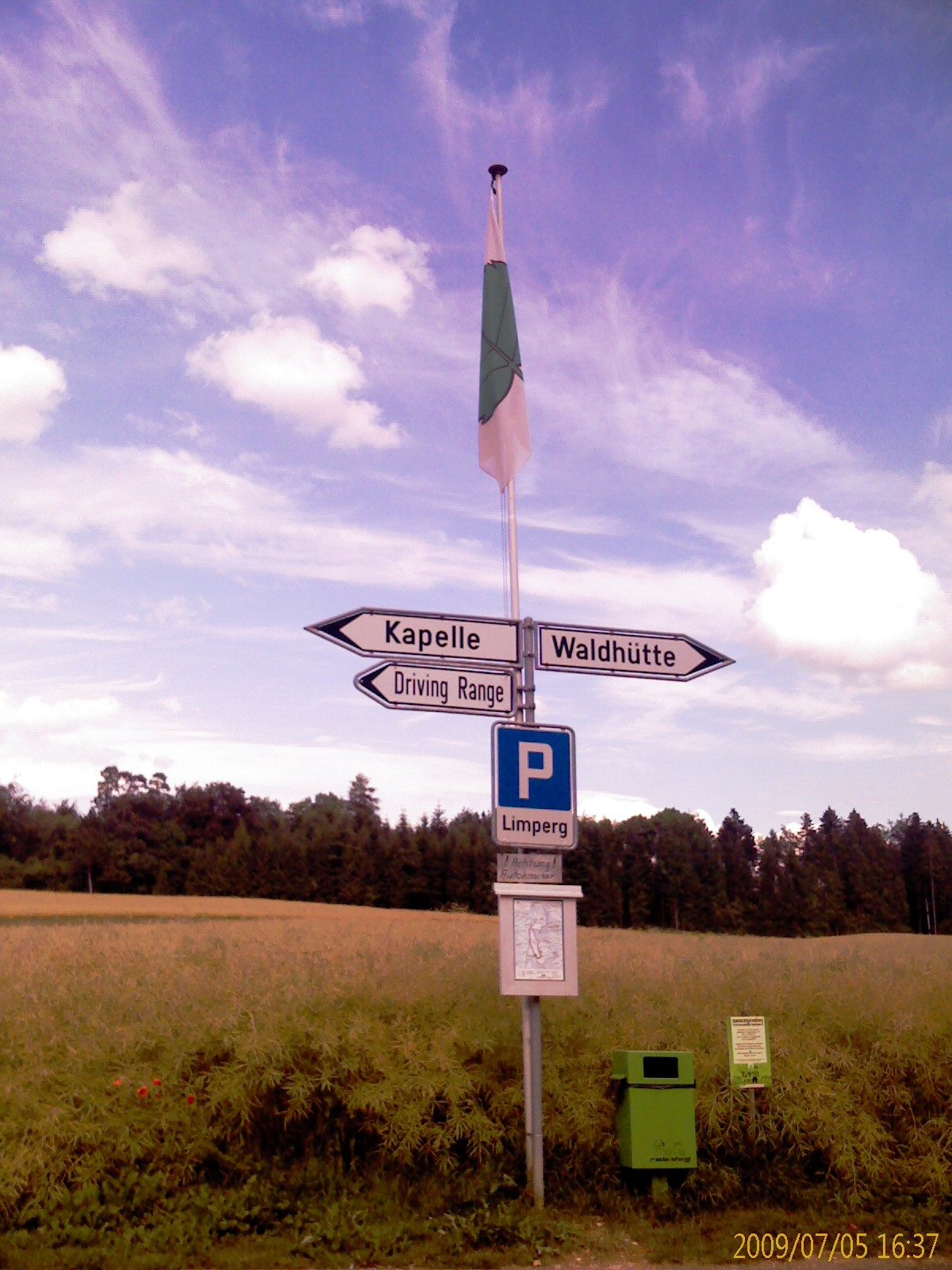 Limperg, Wittnau, canton of Aargau, SwitzerlandEsperanto: Limperg, Wittnau, Kantono Argovio, Svislando